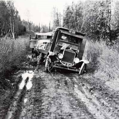 Vehicle being towed out of the mud. Photographer's number BB-84.